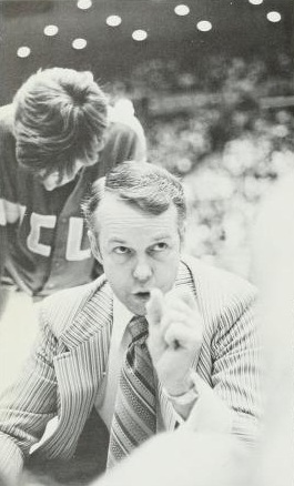 Photograph of UCLA assistant basketball coach Frank Arnold